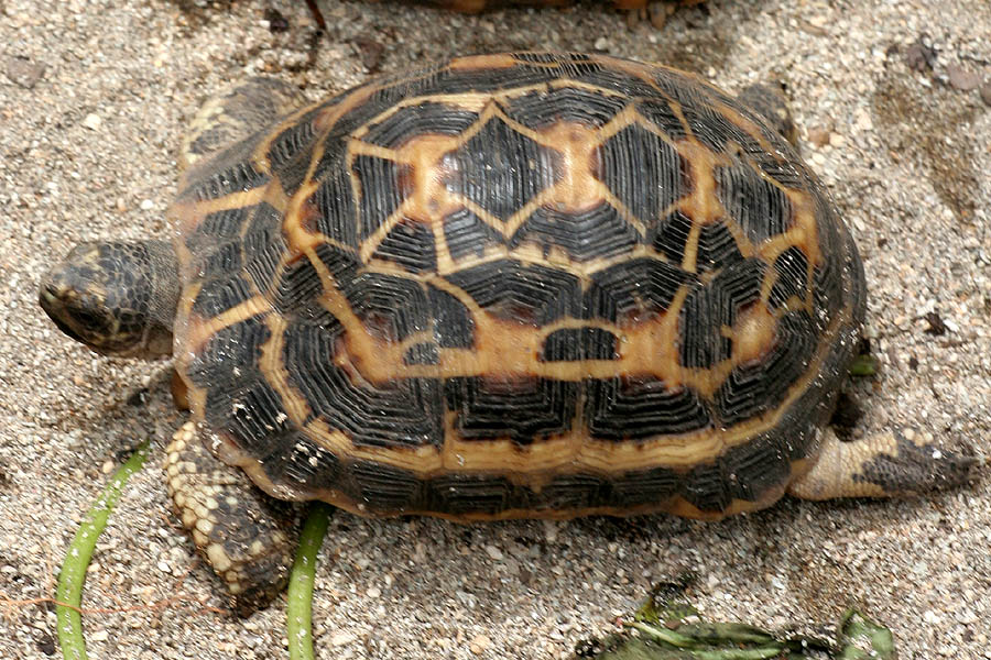 A Pyxis arachnoides (Madagascar spider tortoise) in Sainte Marie Island, Madagascar. This must be a captive animal as this species is not found naturally on Ste Marie. Charles (talk) 17:11, 16 December 2018 (UTC)